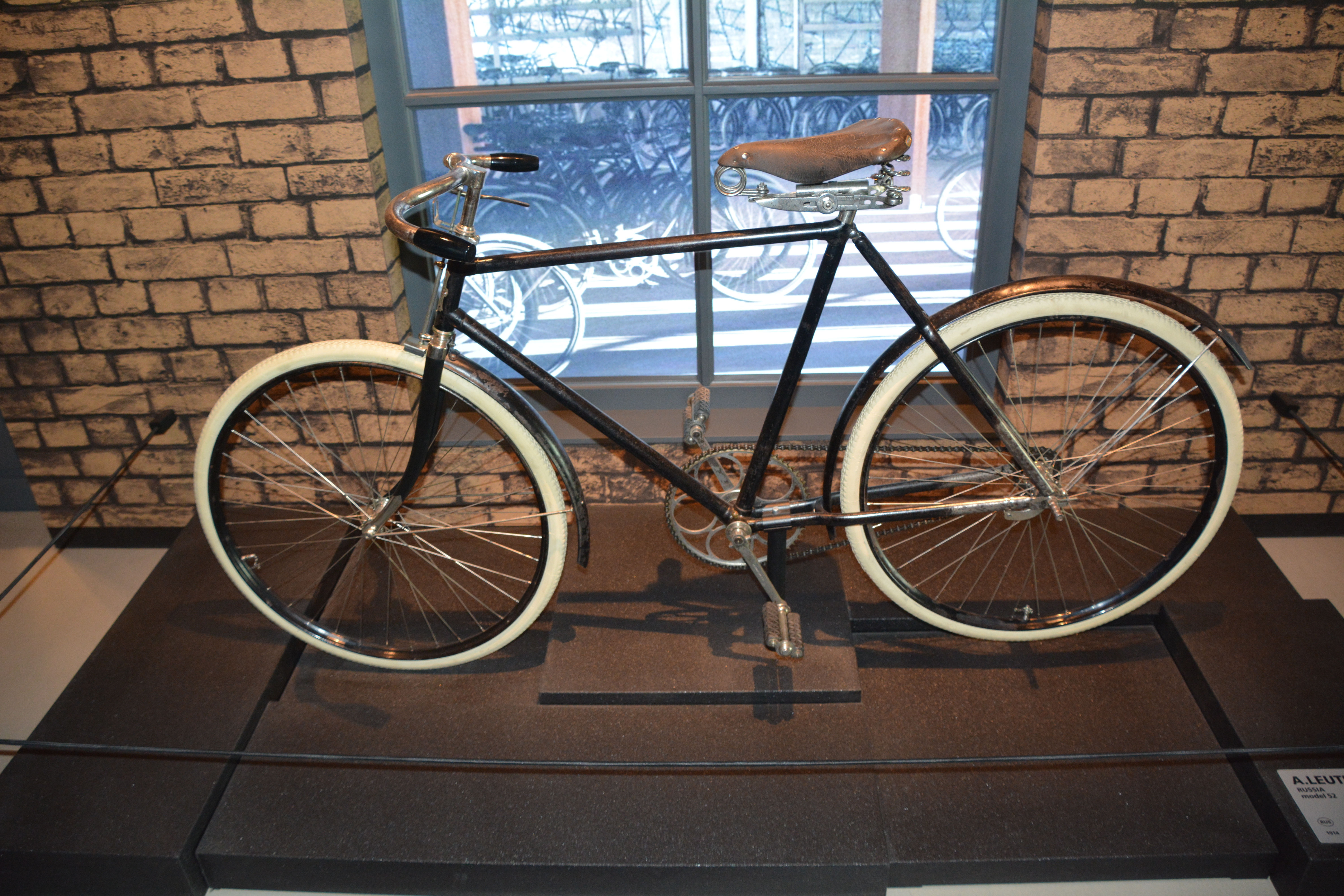 G Ehrenpreis race bicycled Riga Motor Museum